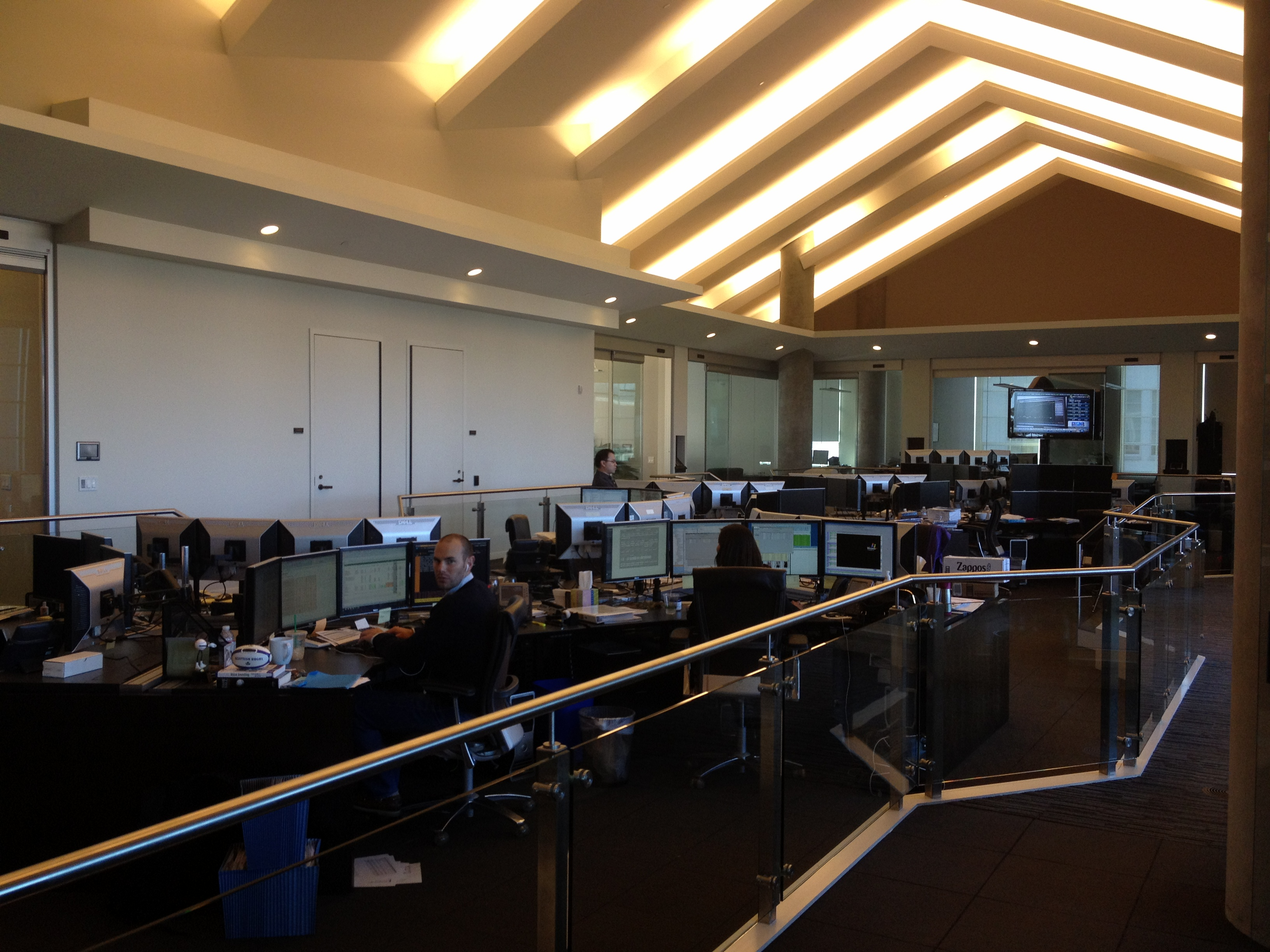 Clarium Capital Management LLC is an American investment management and hedge fund company pursuing a global macro strategy. Clarium was founded in San Francisco in 2002 by Peter Thiel, co-founder of PayPal and early investor in Facebook. Clarium's assets under management grew to $8 billion in 2008, after which a series of unprofitable investments and client redemptions resulted in its assets declining below $1 billion as of 2011.